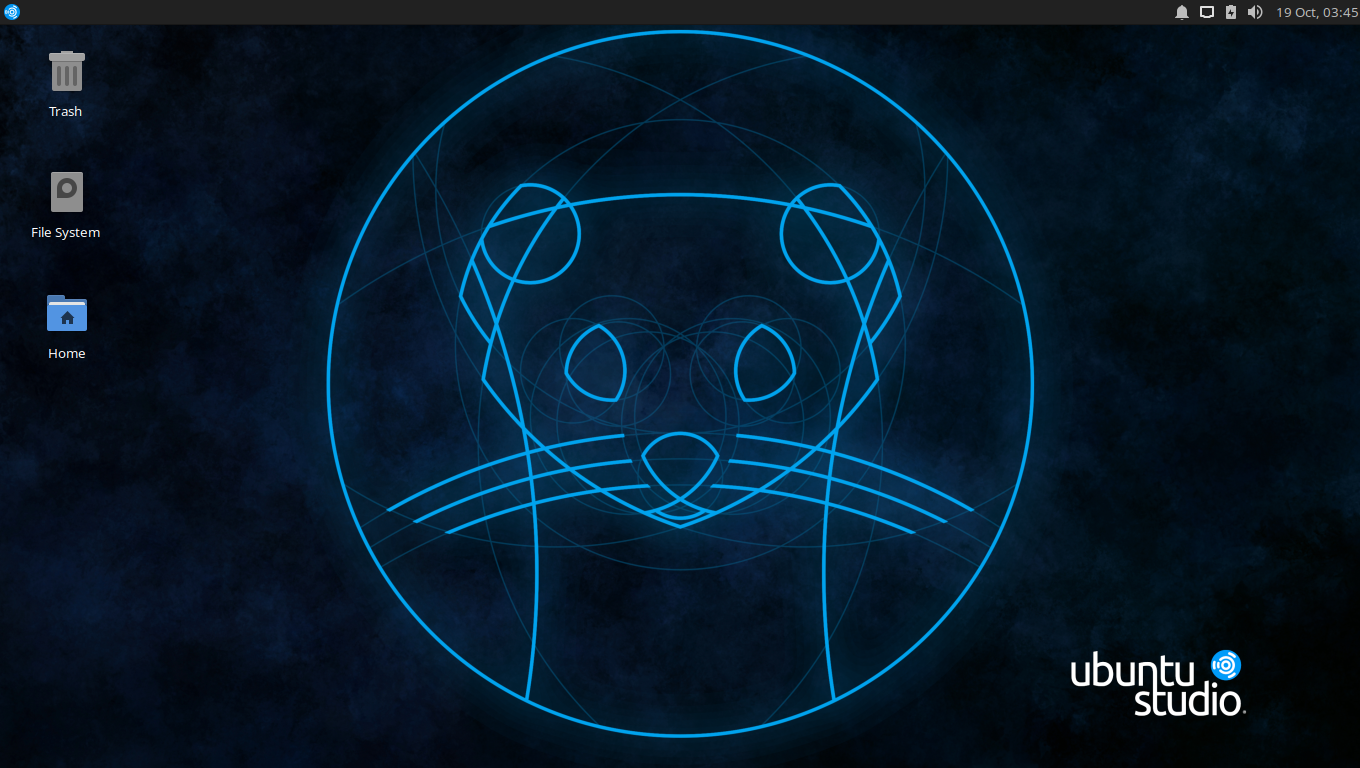 Screenshot of Ubuntu Studio 19.10